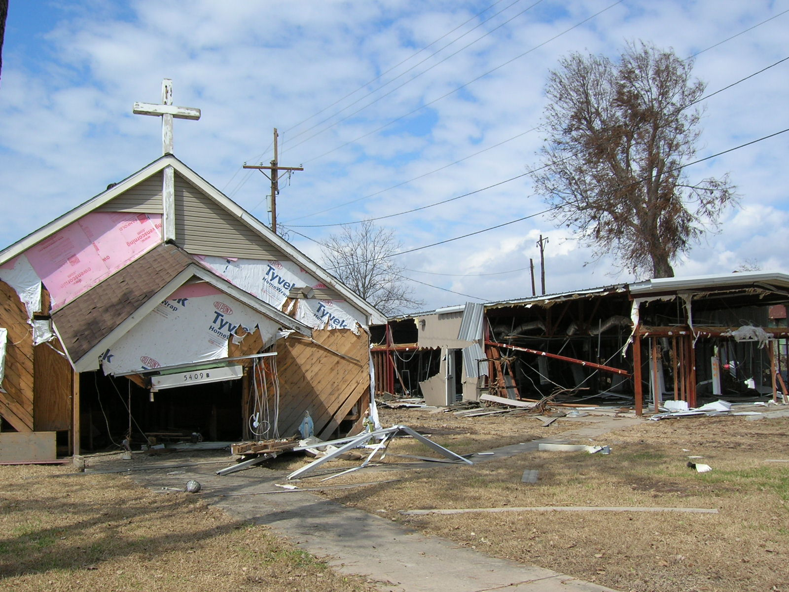 Damage to Church and building from Hurricane Ike at Sabine Pass, Texas.